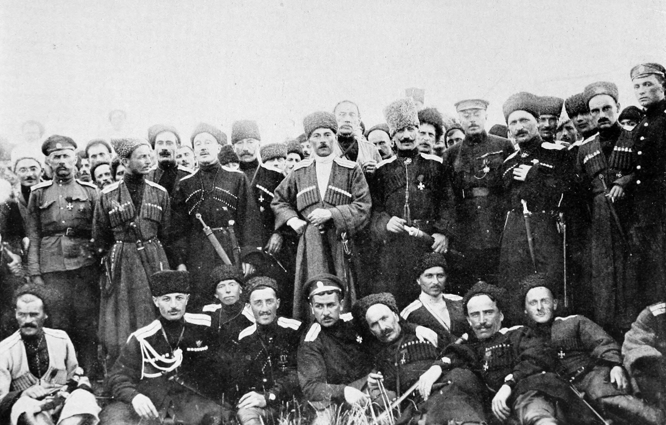 Officers of Savage Division, circa 1917